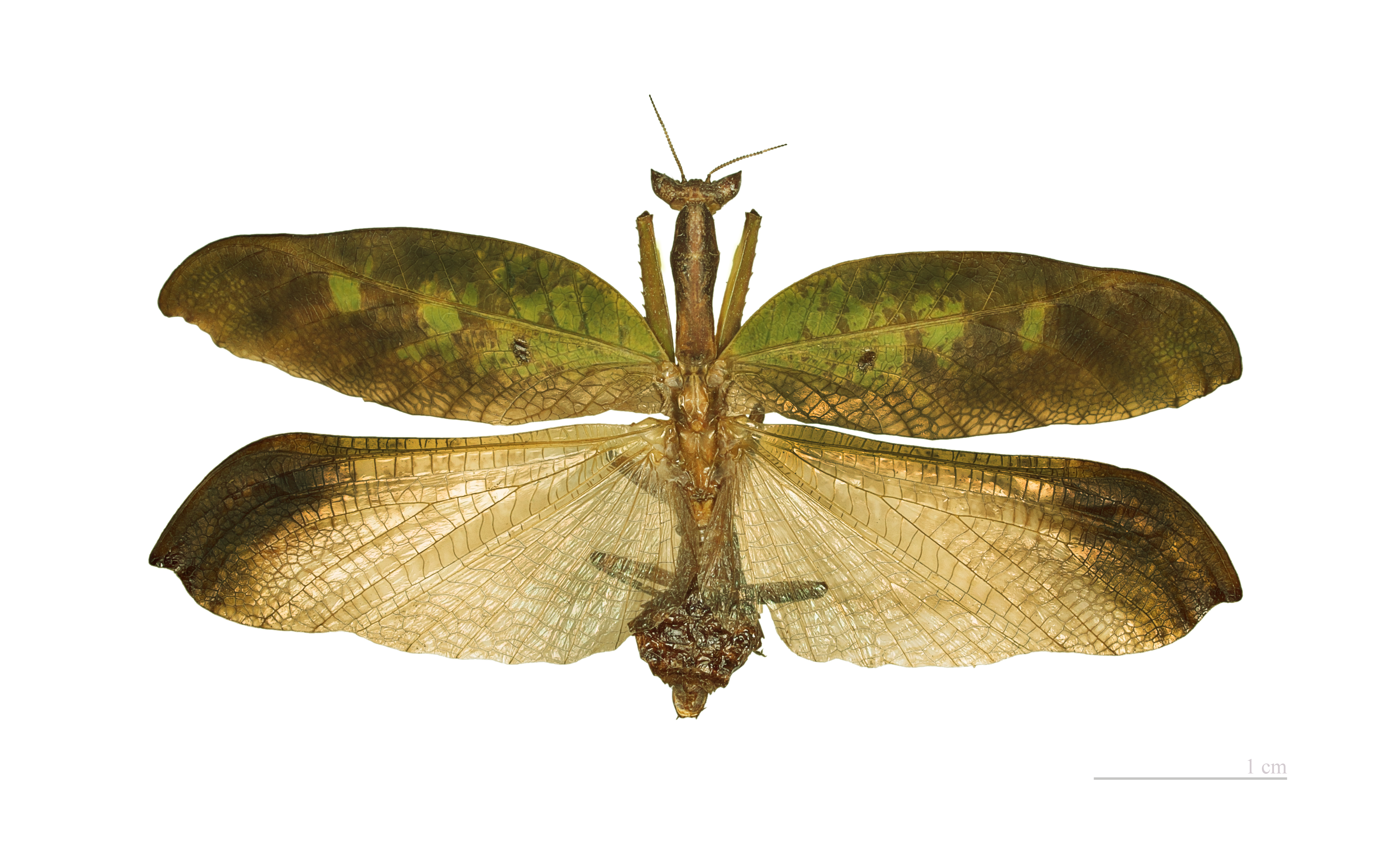 ♂ Flying position Locality : Montsinéry, Crique Balata, French Guiana.